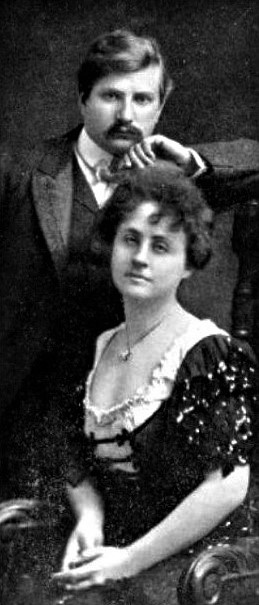 Violinists Alexander Petschnikoff (1873-1949) and Lili Petschnikoff (?-1957)